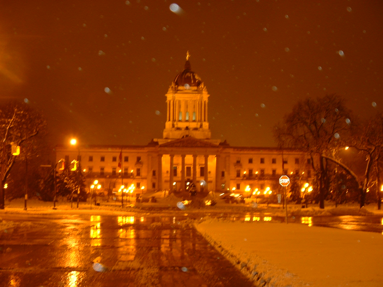 Manitoba Legislature at Night